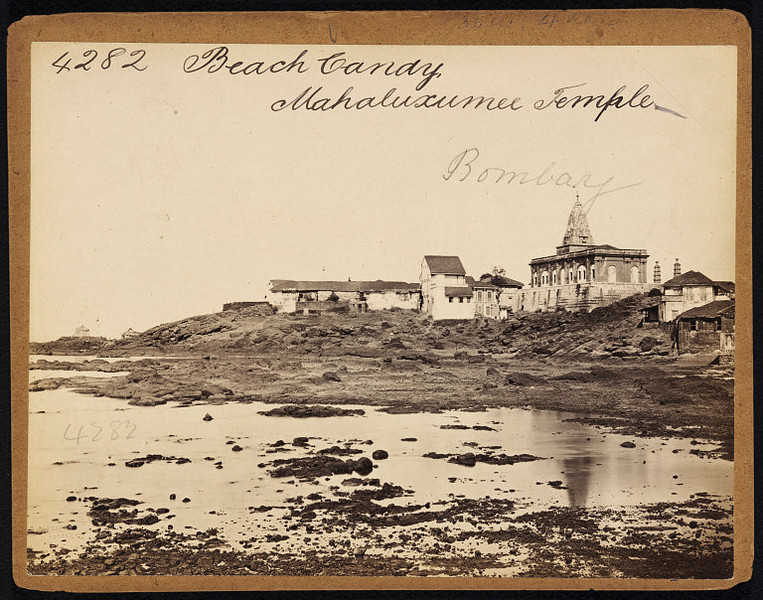 Whole plate albumen print from wet collodion glass negative.